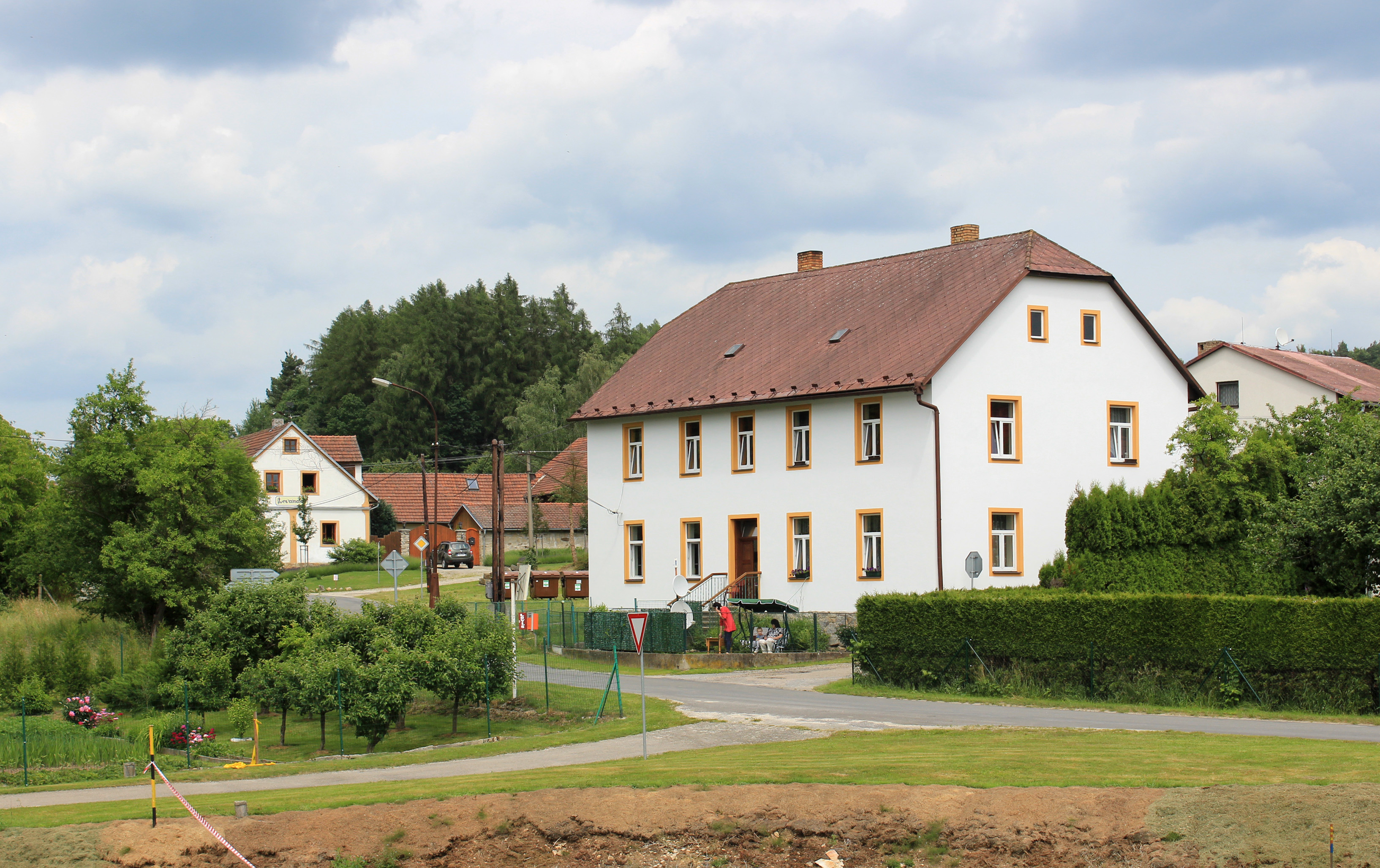 House No 99 in Horní Radouň, Czech Republic.